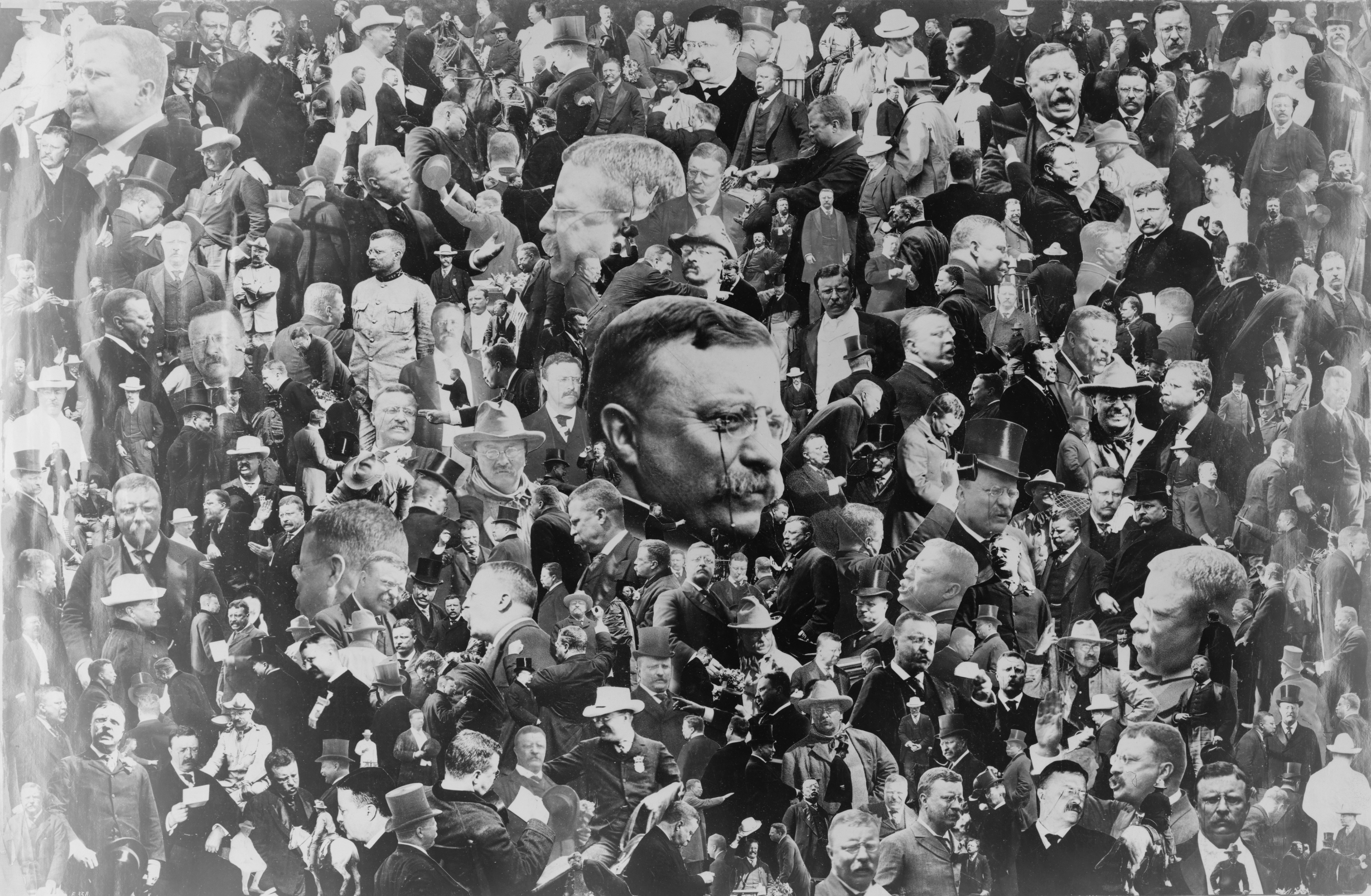 Collage depicting portraits and other photographs of U.S. President Theodore Roosevelt (1858-1919) engaged in various activities.